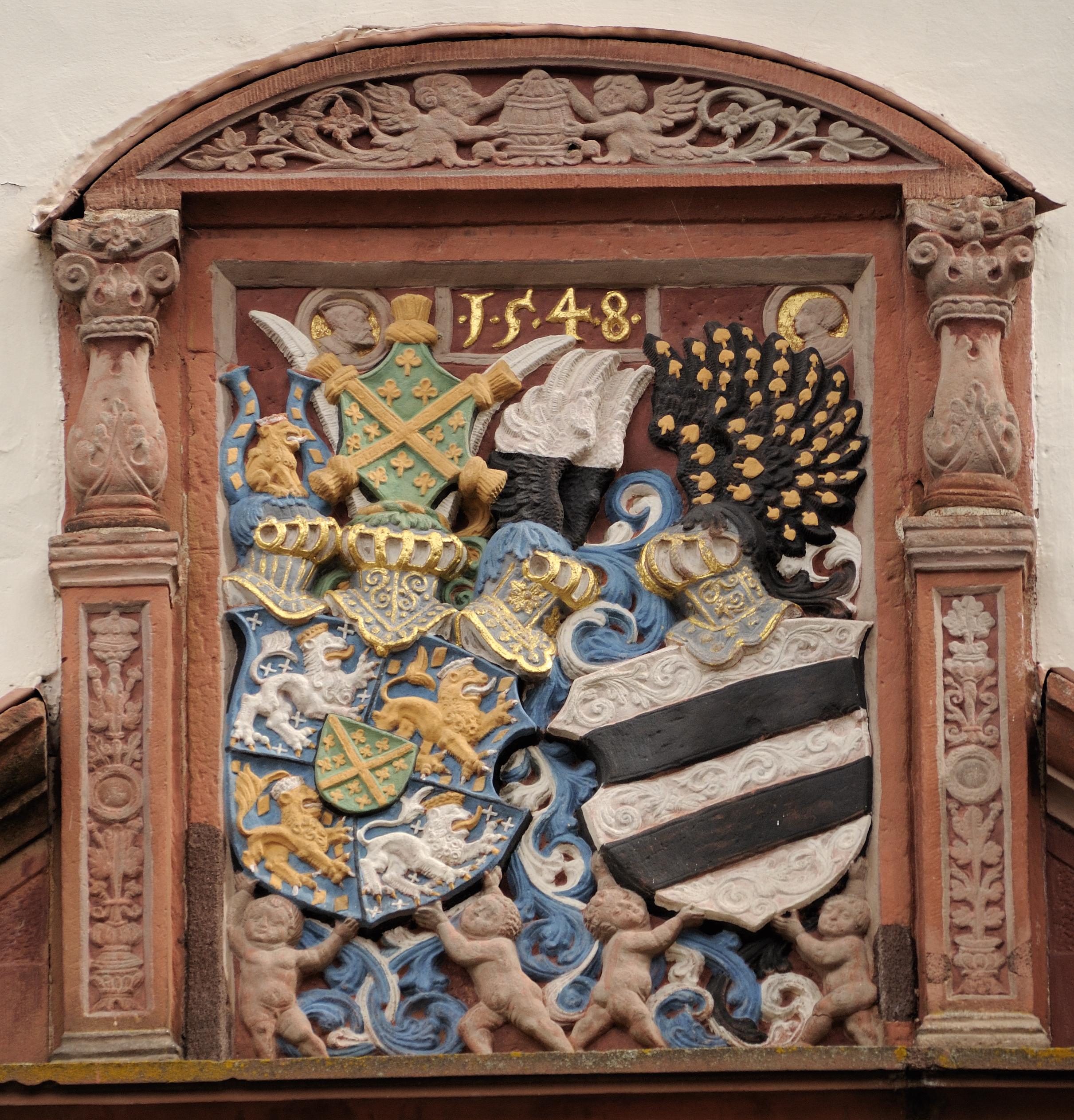 Arms of alliance Isenburg and Nassau-Weilburg (! Lions of Nassau-Weilburg look to Isenburg (turned) !) Dieses Foto entstand im Rahmen des Projekts Wiki Loves Monuments Mittelhessen, das aus dem Community-Projektbudget von Wikimedia Deutschland e. V. gefördert wurde.